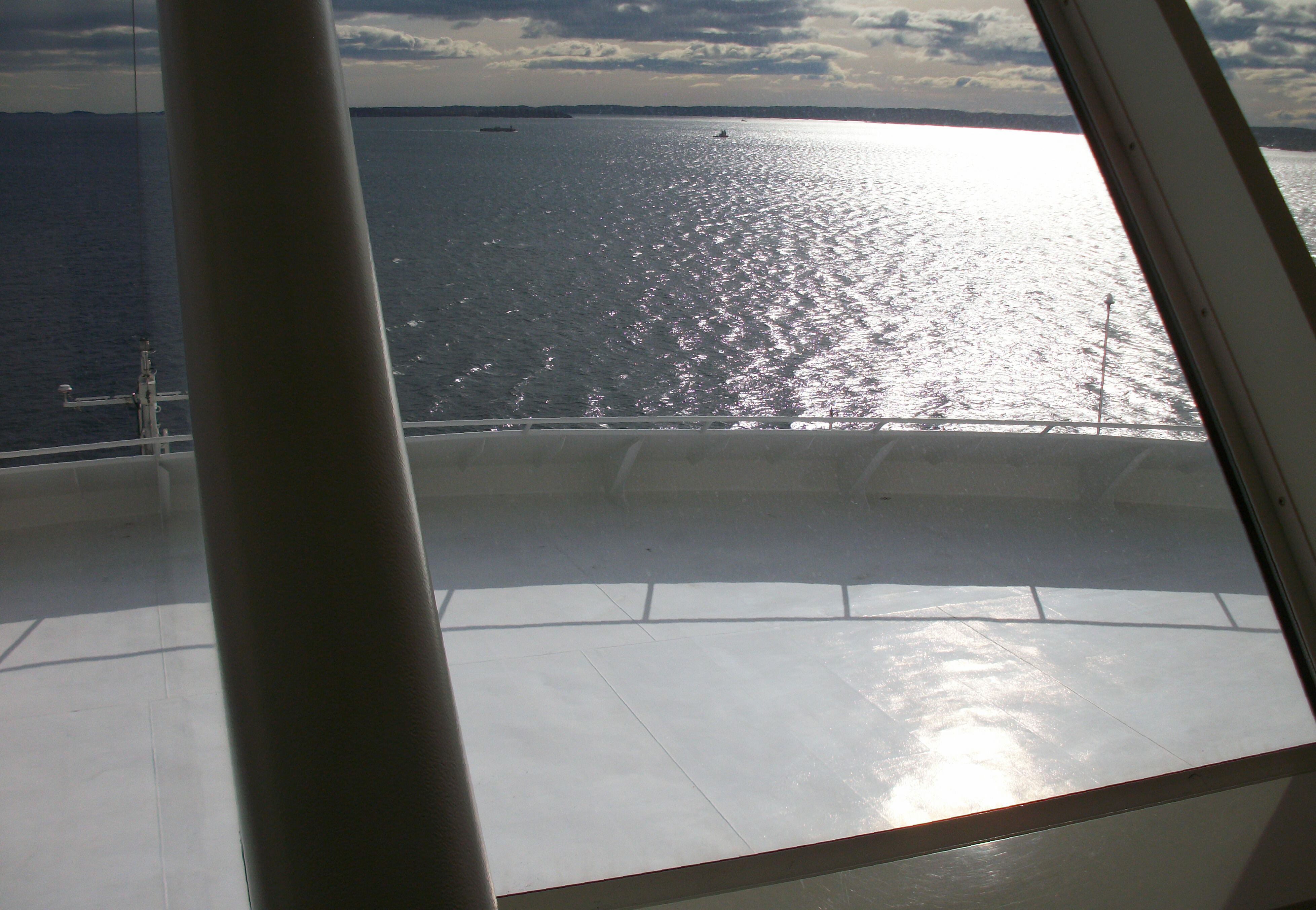 Oslofjord with ferry Moss - Horten seen from Color Fantasy